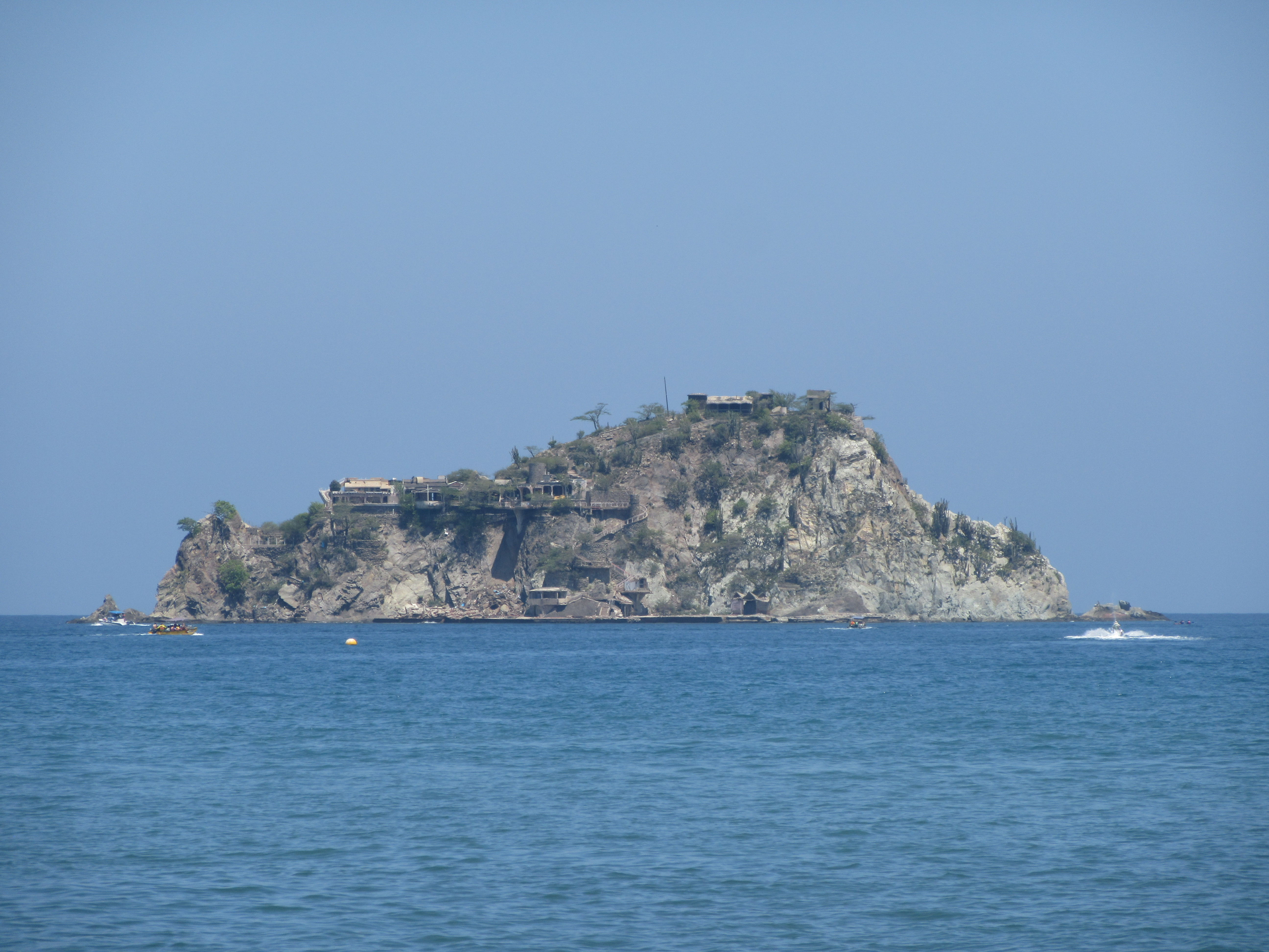 El Rodadero